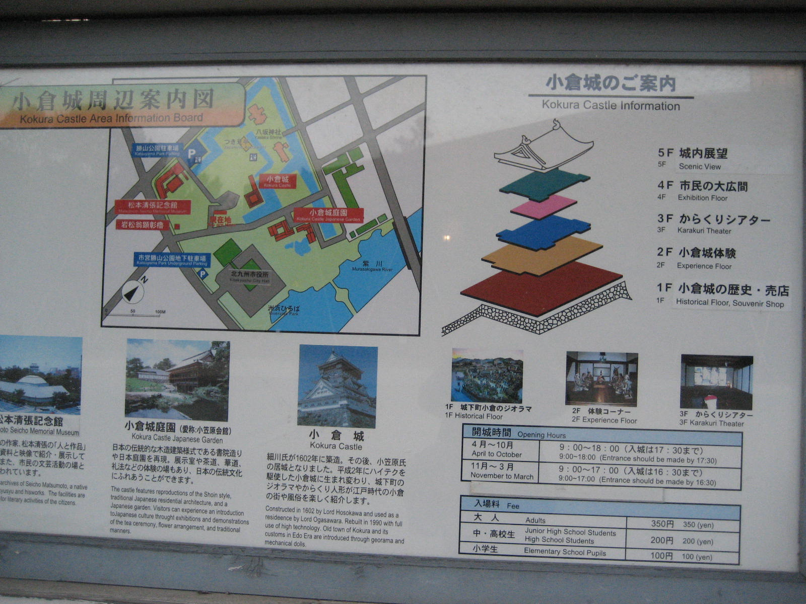 Kokura castle information board